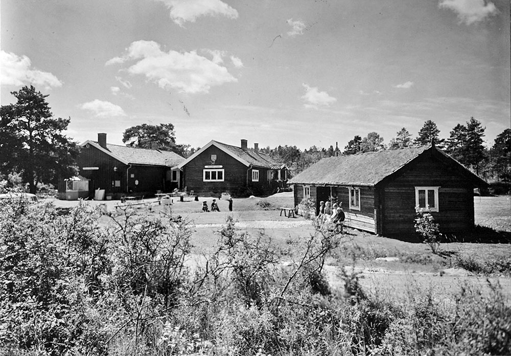 Hammarbystugan